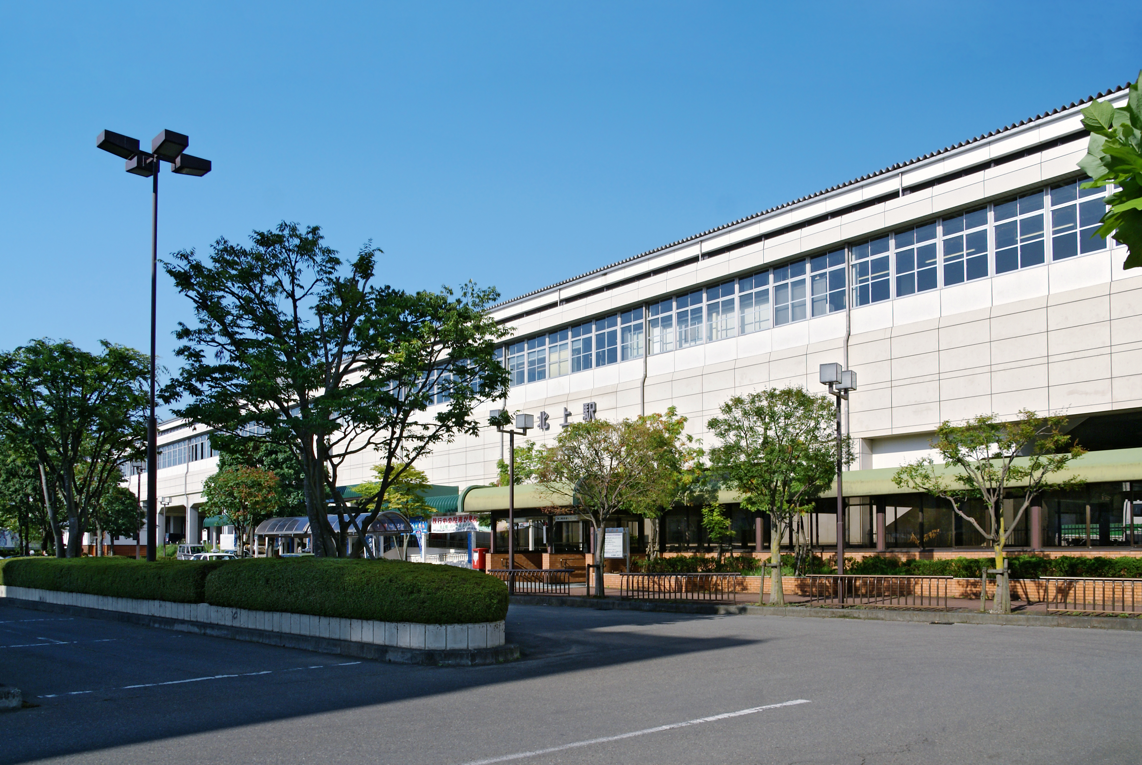 The east side of Kitakami Station in Kitakami, Iwate Prefecture, Japan